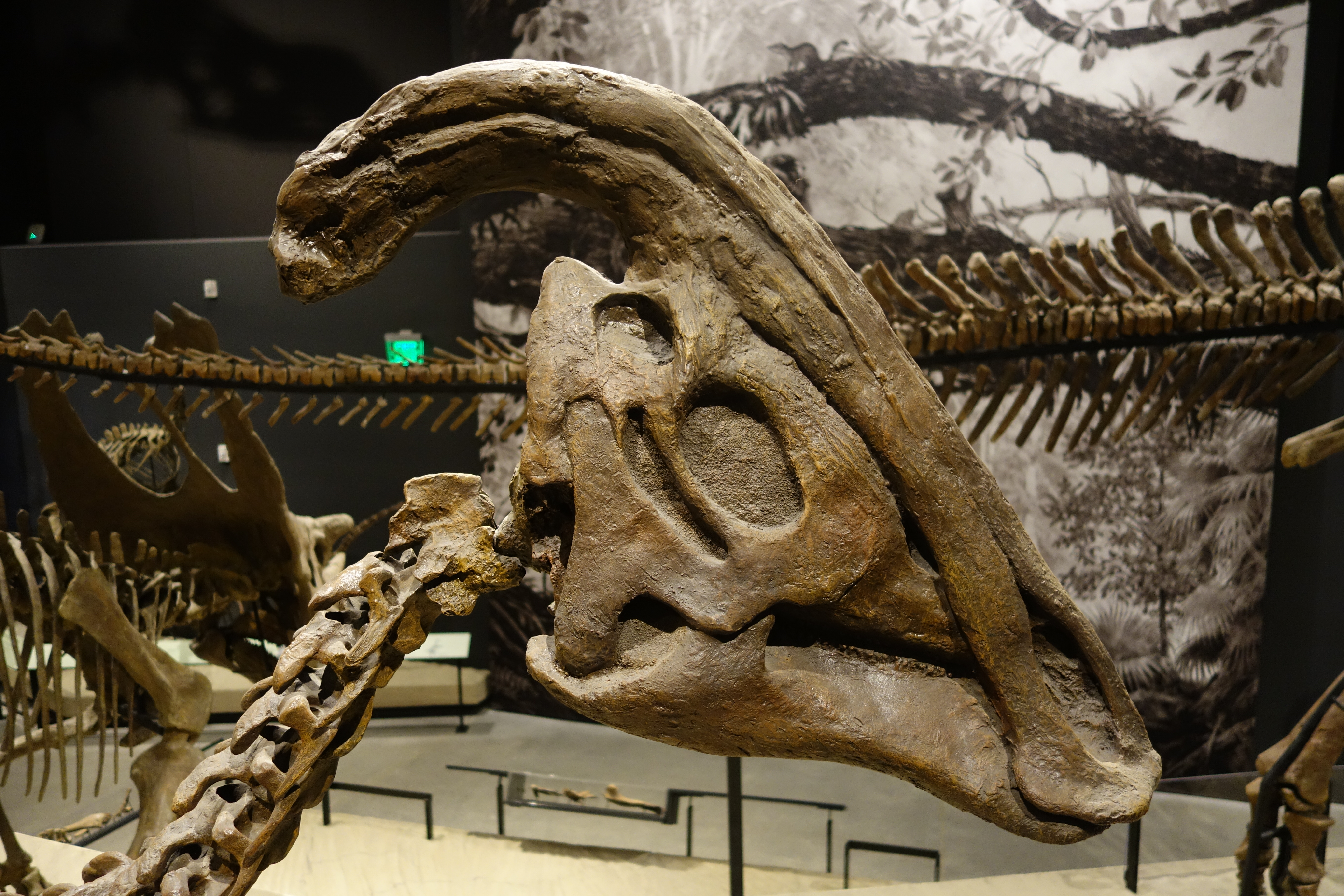 Parasaurolophus cyrtocristatus skull, on display at the Natural History Museum of Utah, Salt Lake City.